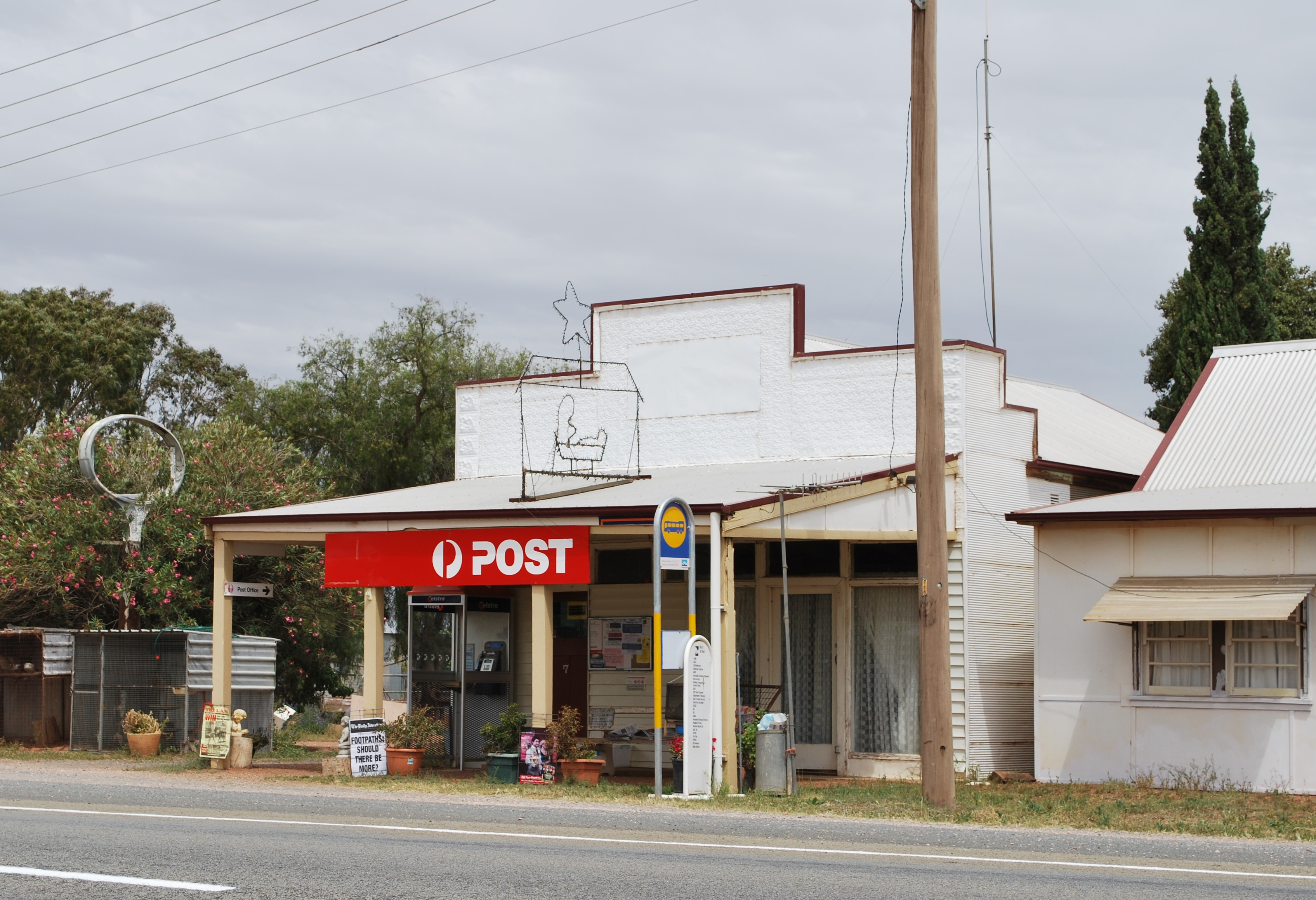 General Store and post office agency at Binya, New South Wales